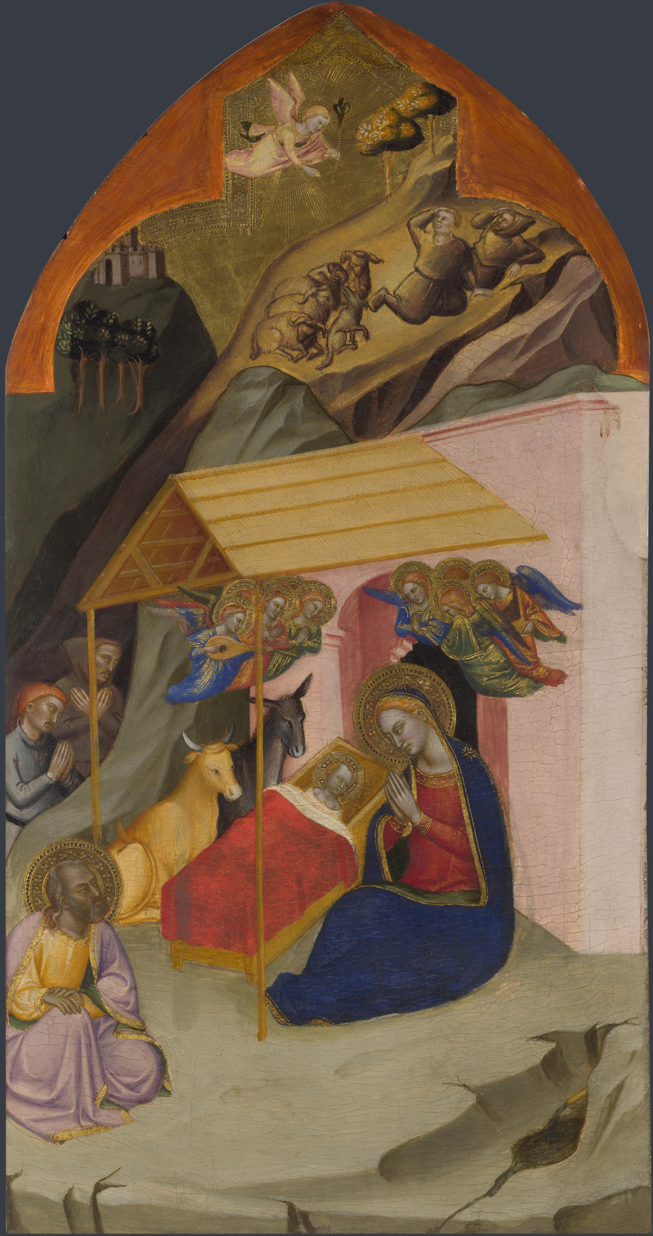 Jacopo di Cione Polyptych San Pier Maggiore, detail. 1370-71 London NG